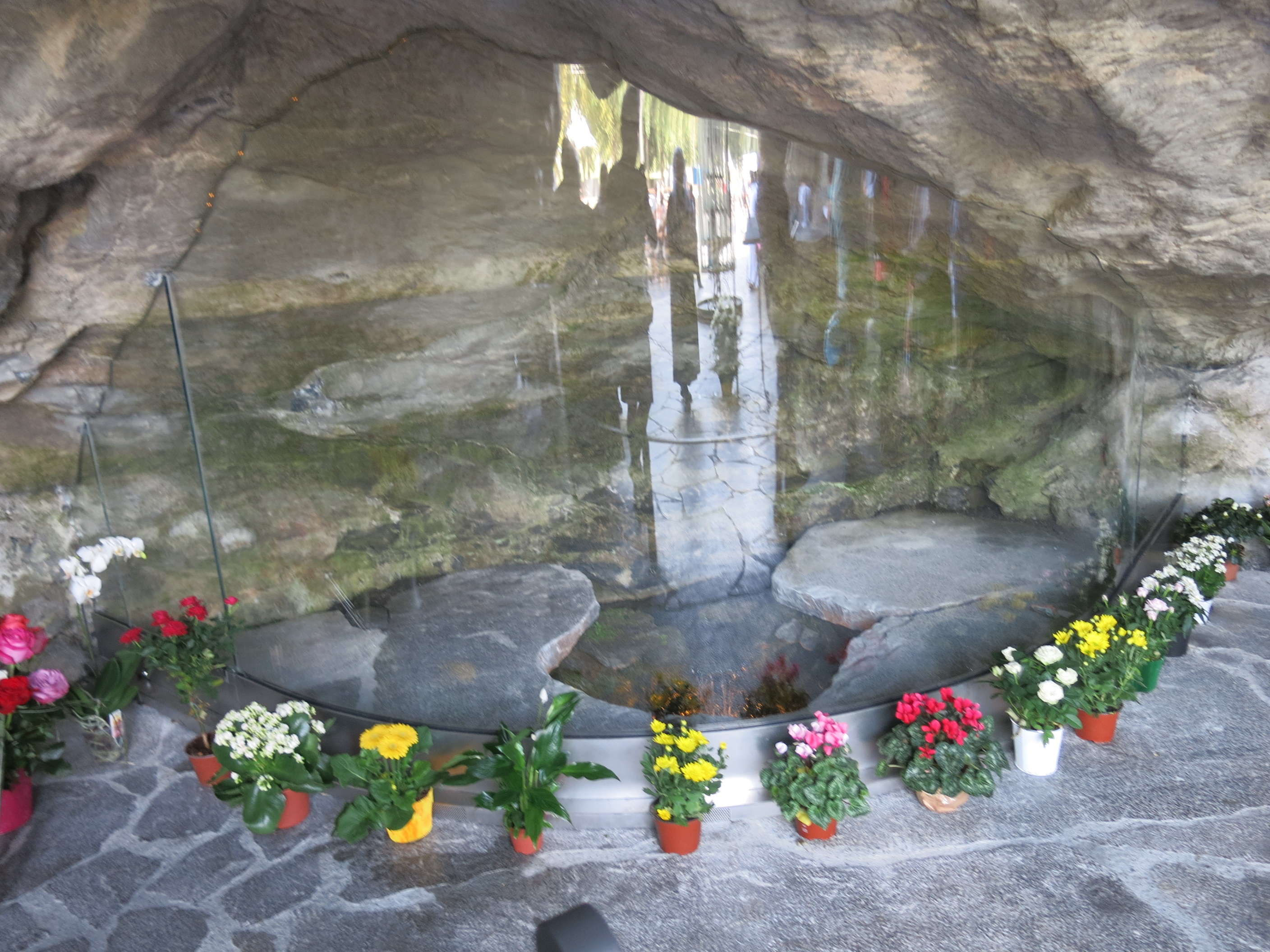 New fittings of Massabiel cave in Lourdes (Hautes-Pyrénées, France) after the floods of 2013.